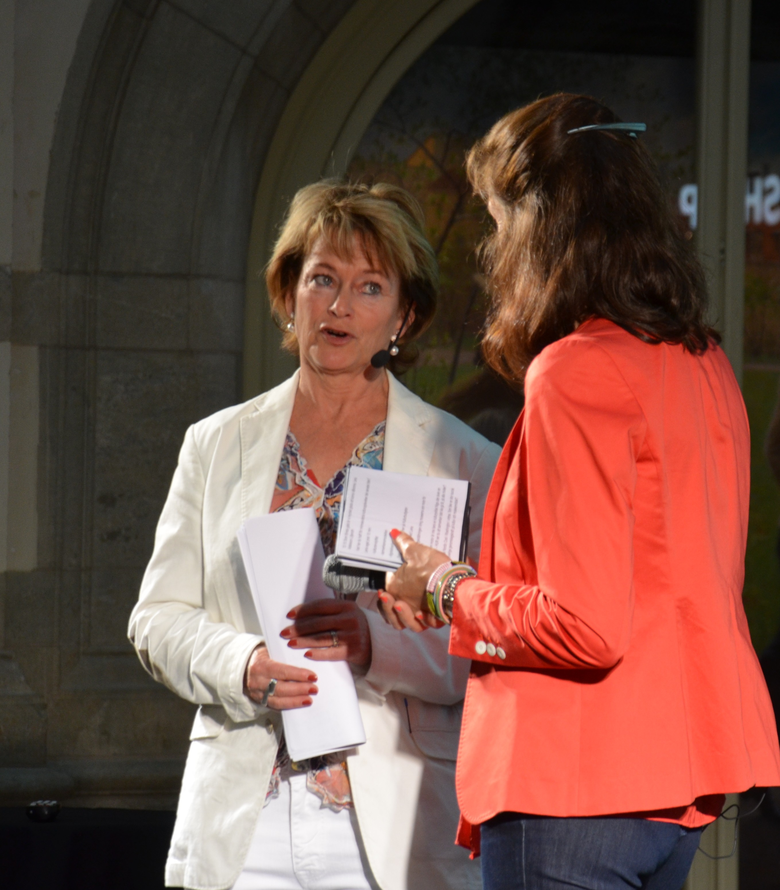 Lena Adelsohn Liljeroth på Riksförbundet Sveriges museers vårmöte på Nordiska museet 15 maj 2013